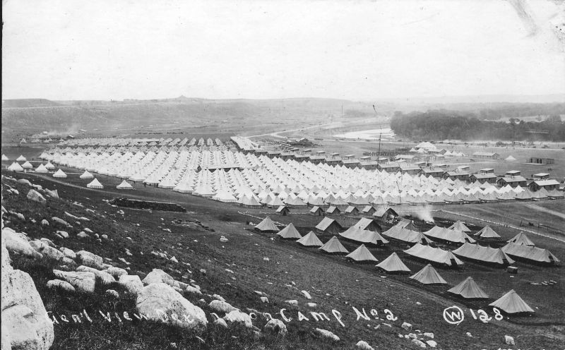 2014-0068m Date: 1918-1919 Location: Camp Funston, Kansas MLA filing: World War I-Kurt R. Galle Collection, Photos 1-210, No.21-40 Original Size: 15.8 x 10 cm Source: Louisa M. Galle, 1989 Photographer: Notes: From Kurt Galle's "Camp Funston, April 26, 1918-March 24, 1919" album, p.6-23; used in Mennonite Life-Dec. 1989, p.13